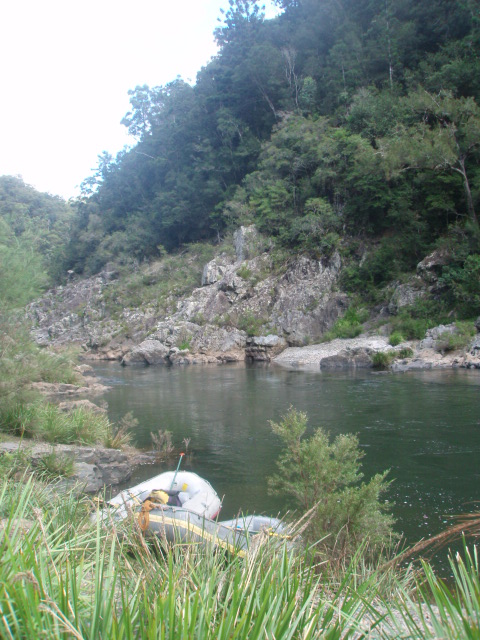 Nymboida River this is where we stopped for afternoon tea